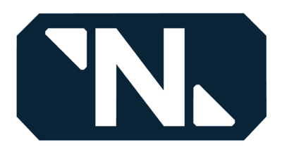 The Nanotrasen Logo from the video game "Space Station 13"